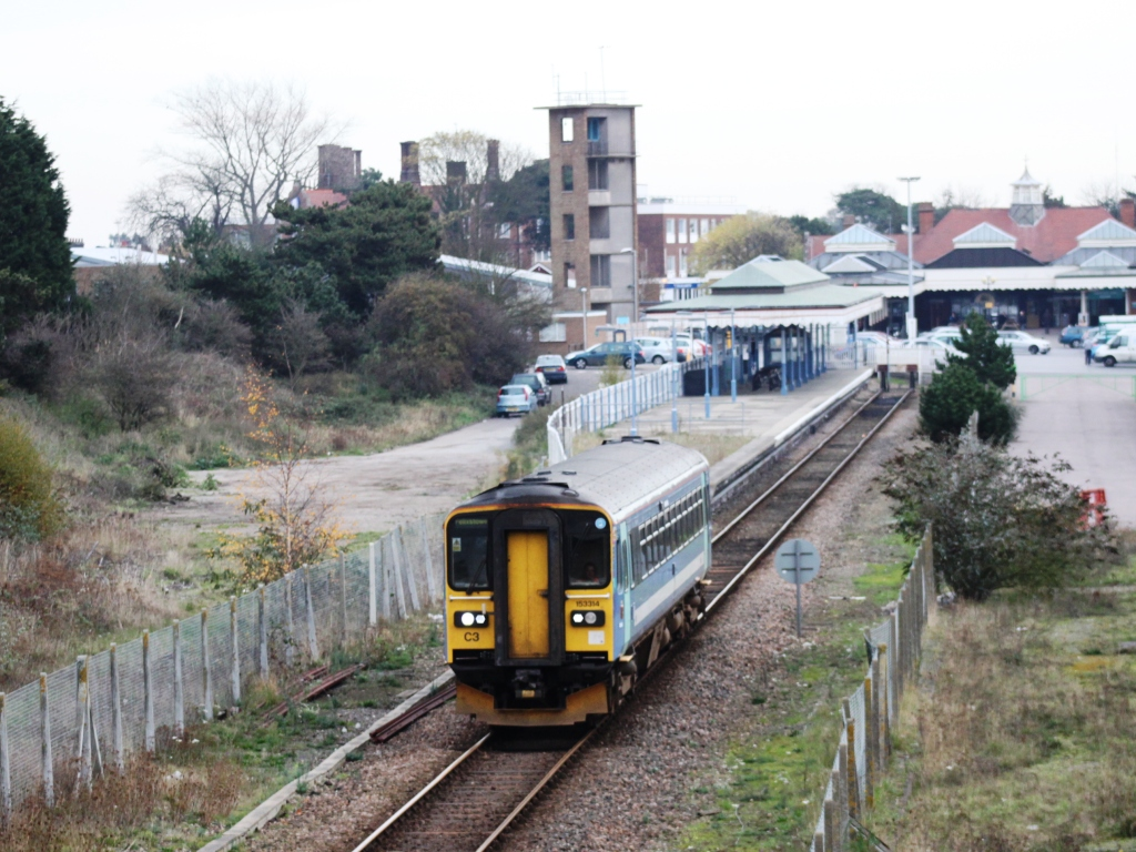 National Express's 153314 pulls away from Felixstowe station in Suffolk at the start of a journey to Ipswich. The view was taken from the bridge on Garrison Road. The red roofed building beyond the station was once the station offices but has been converted to a shopping complex; the tower on the left is a training facilitiy for the fire station which is next door to the railway station.